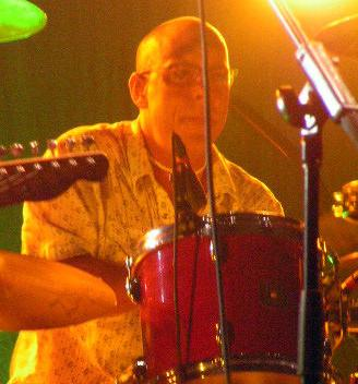 David Lovering of the Pixies at the Reliant Arena in Houston, Texas